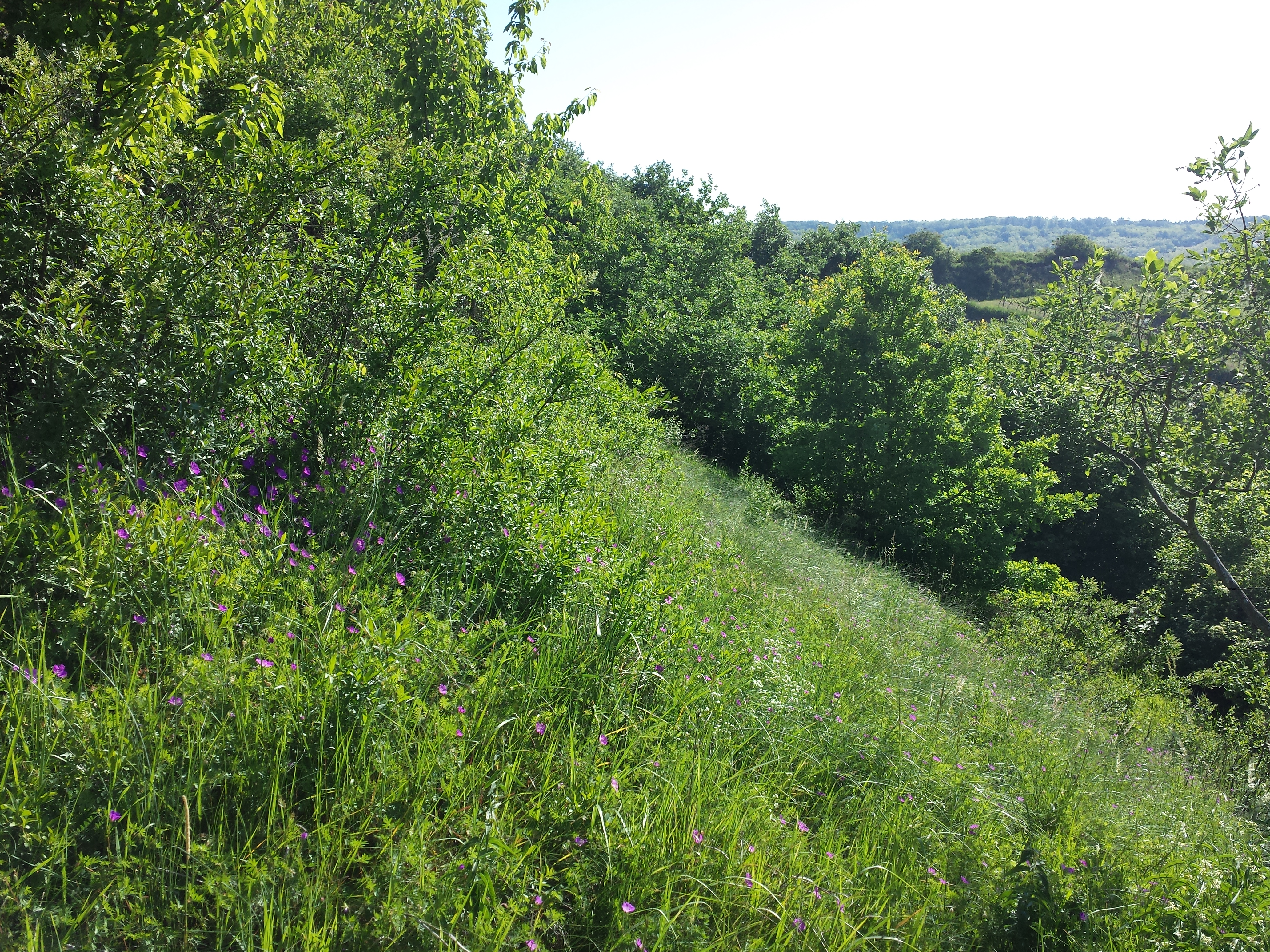 Habitat Taxonym: Geranium sanguineum ss Fischer et al. EfÖLS 2008 ISBN 978-3-85474-187-9 Location: semi-dry grasslands and wine yards to the north of Oberthern, municipality Heldenberg, district Hollabrunn, Lower Austria - ca. 300 m ü. A. Habitat: border of a shrubbery